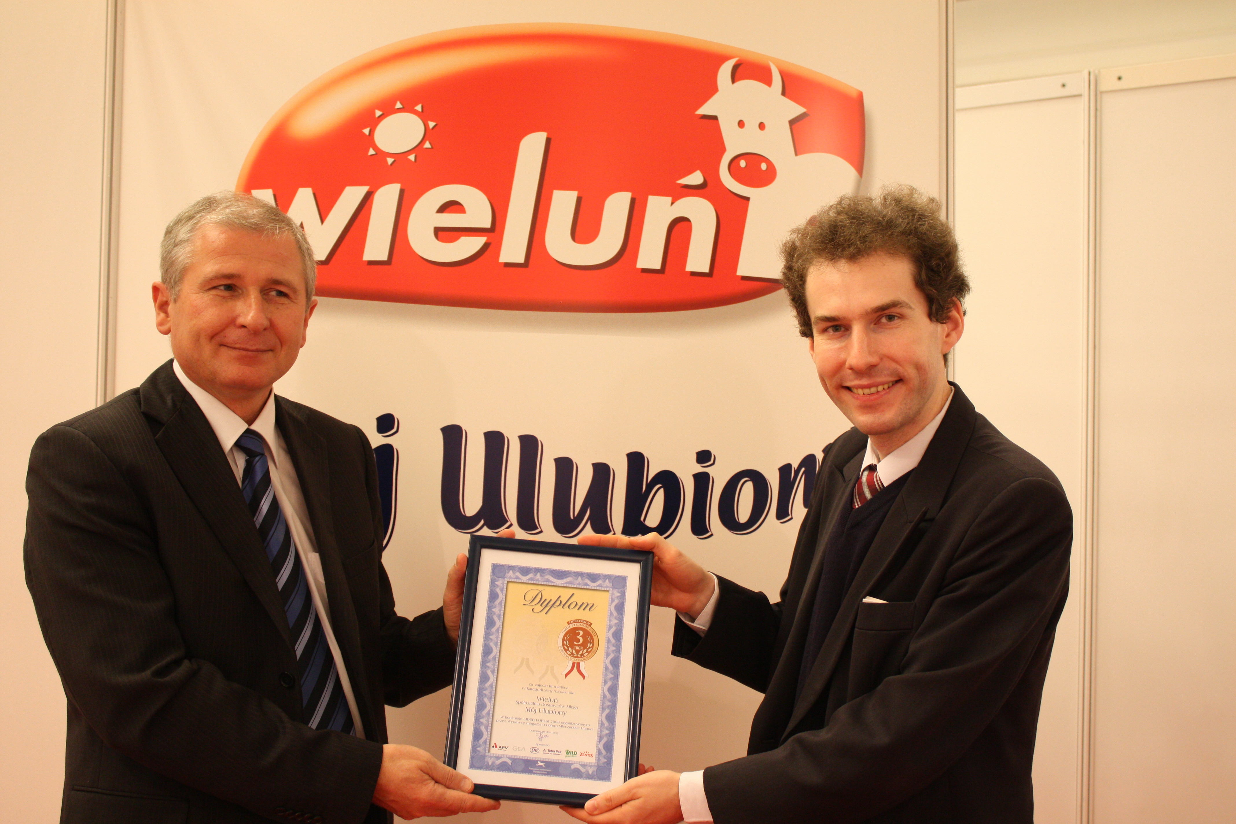 Bogdan Woźniak from SDM Wielun receives the Forum Mleczarskie (Lider Forum) diploma (2008)